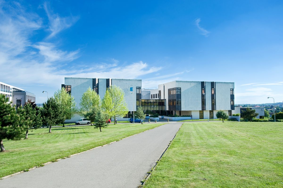 Jižní Město campus - University of Economics, Prague